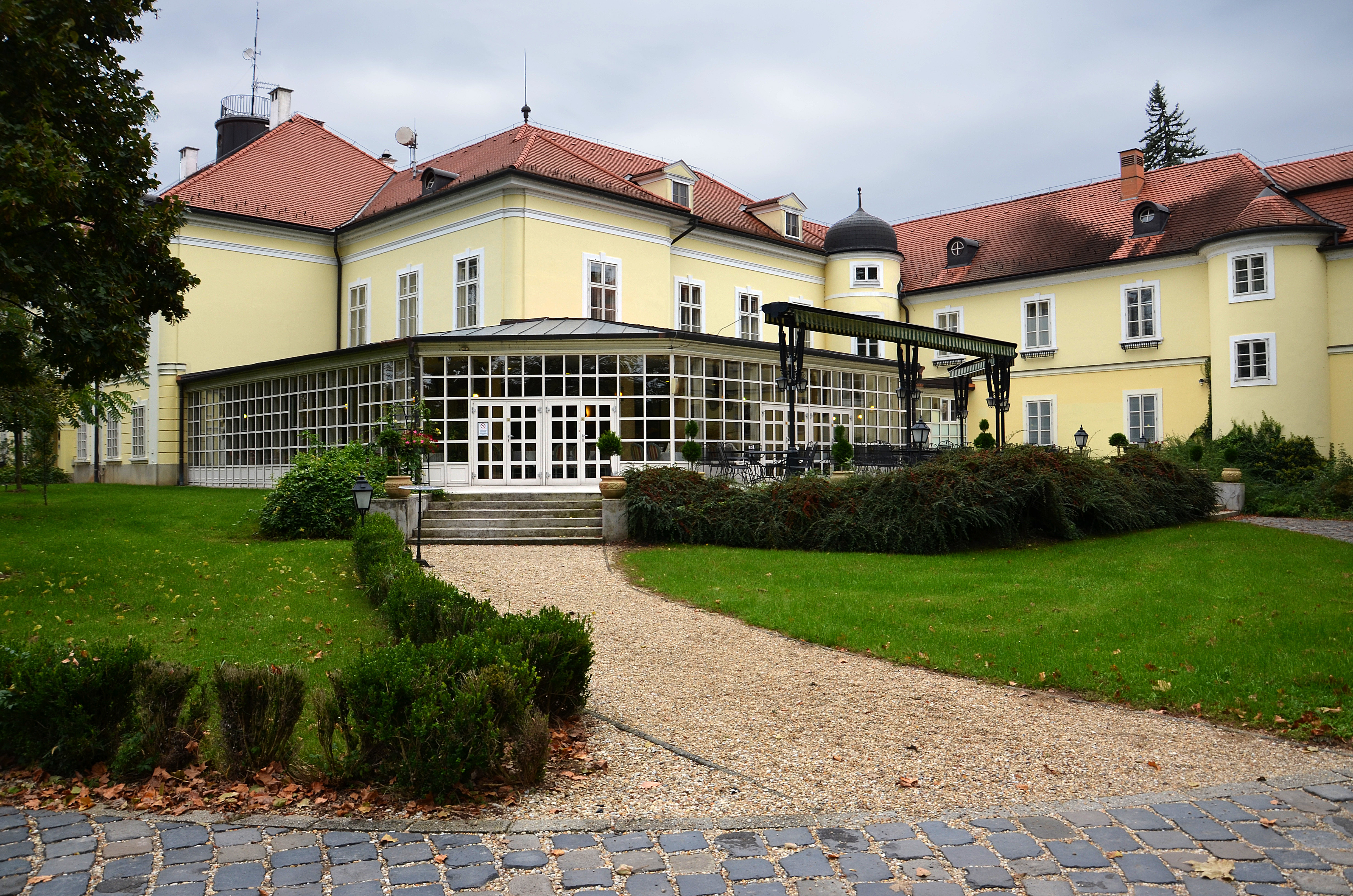 The Felsobuki Nagy – Ürményi mansion in Röjtökmuzsaj, Hungary